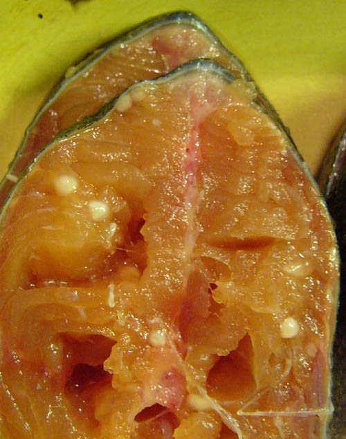 Myxozoa in salmon. Probably Henneguya zschokkei. Henneguya zschokkei